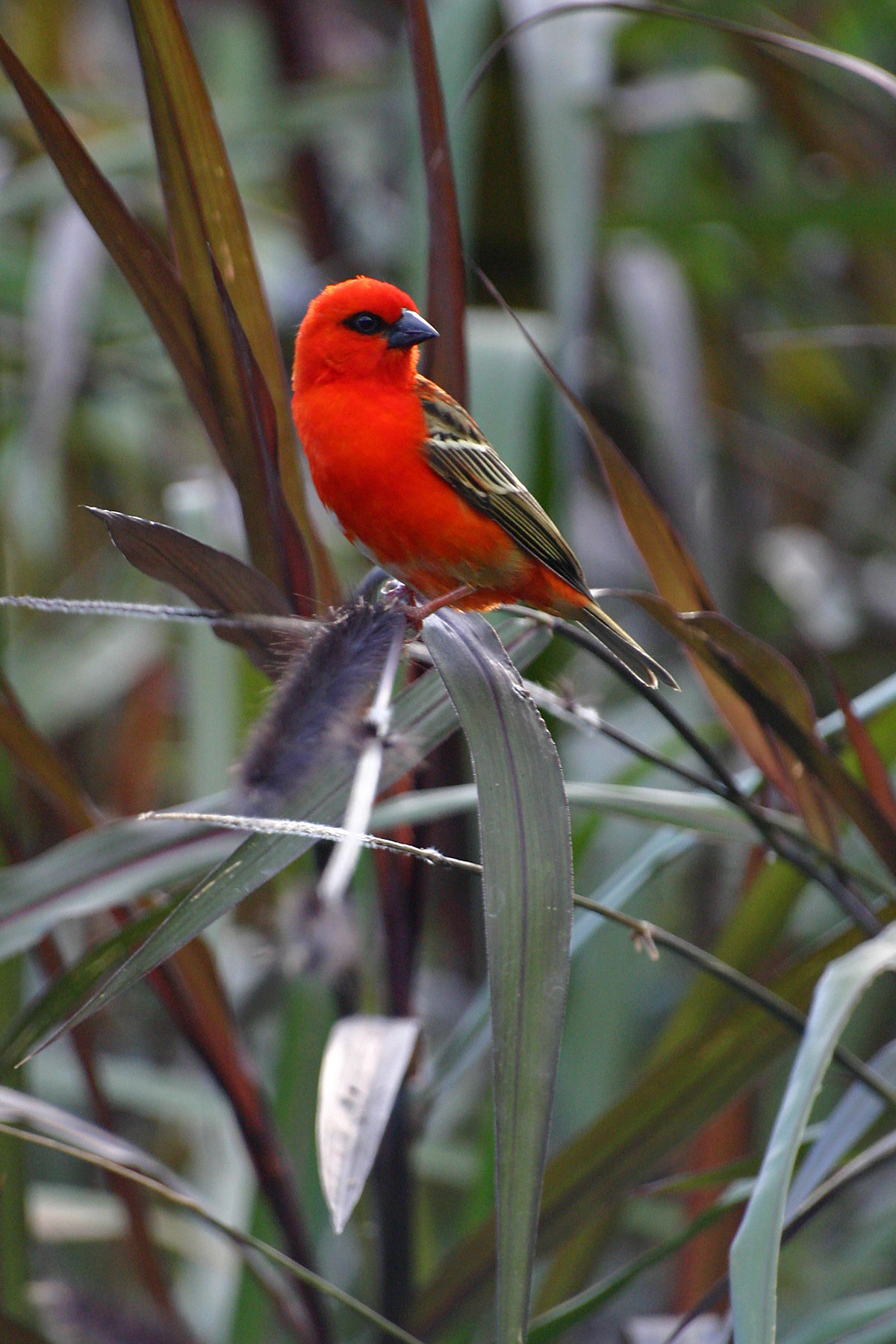 A Red Fody on Réunion